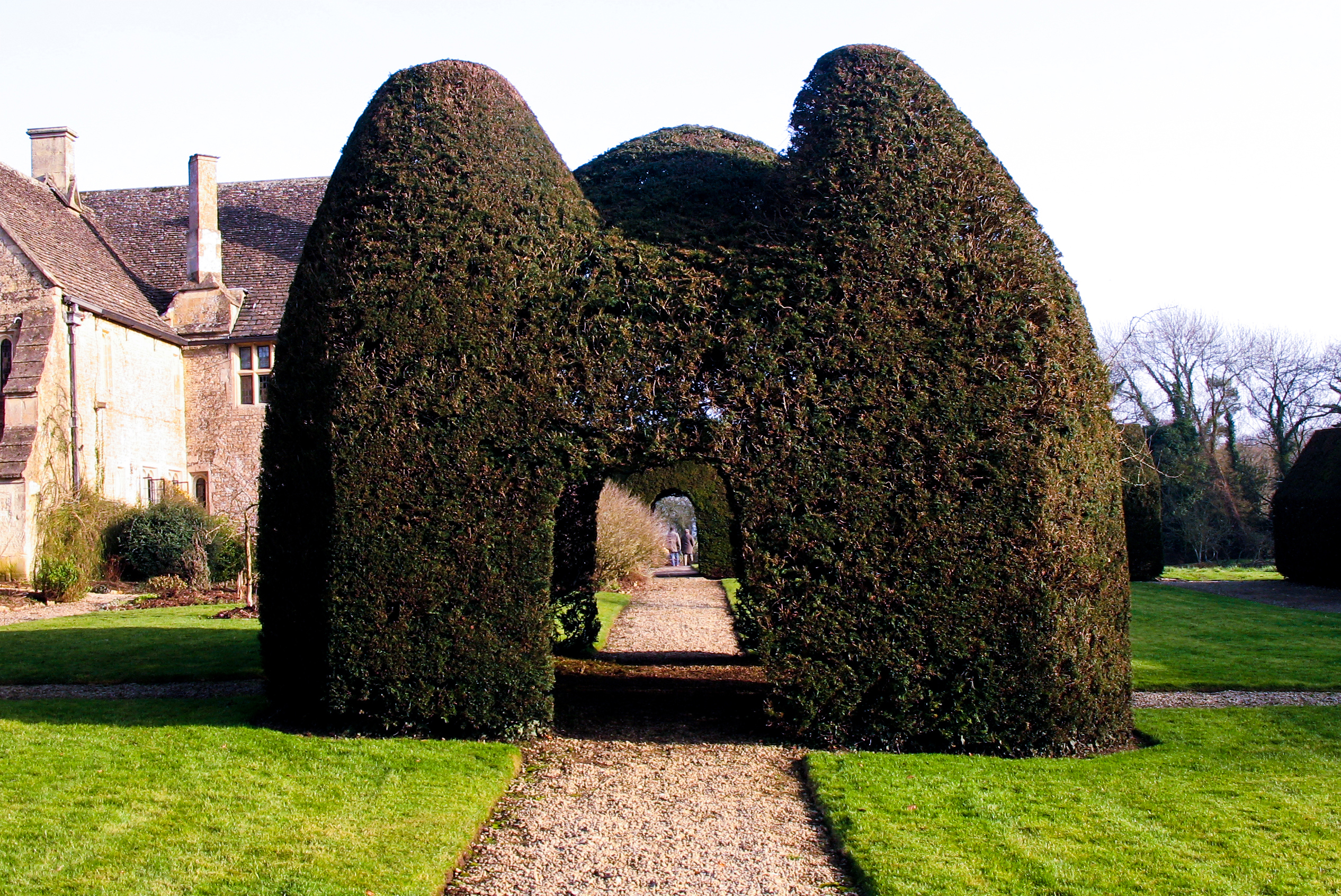 Great Chalfield Manor is a National Trust property in Wiltshire. The garden, in arts and craft style, was designed by Alfred Parsons: it contains this unusual yew topiary in the form of a house.